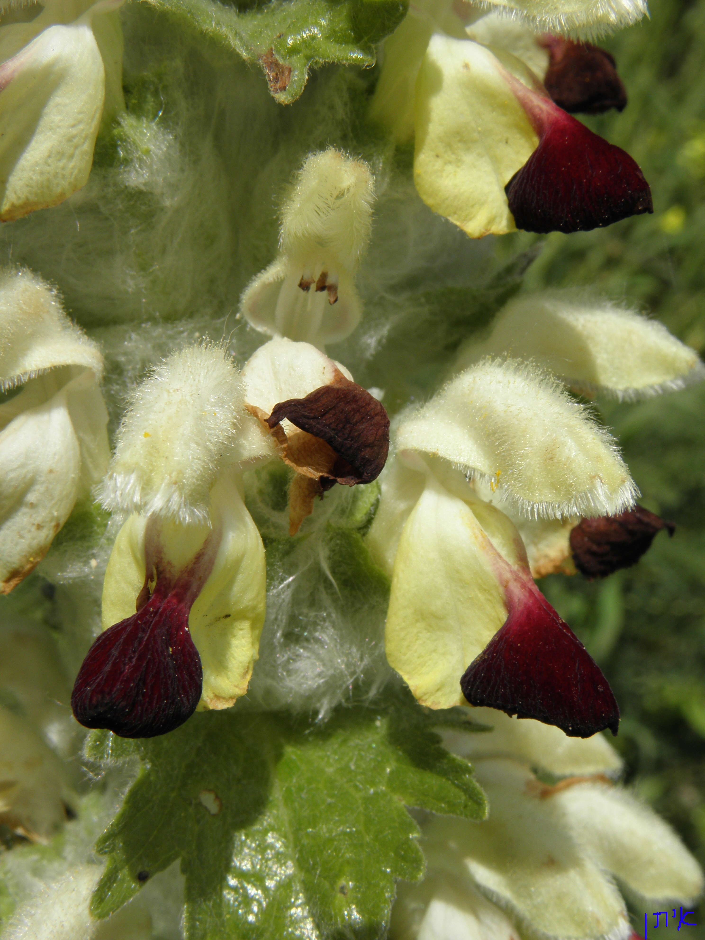 Eremostachys laciniata flower closeup צמר מפוצל, יקנעם, נחל השניים